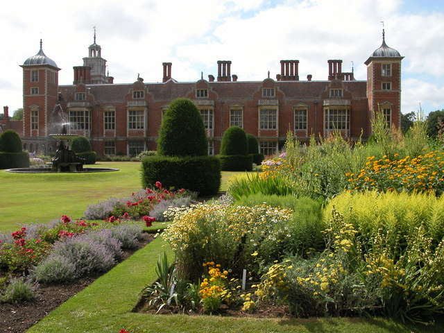 Flower bed at Blickling Hall